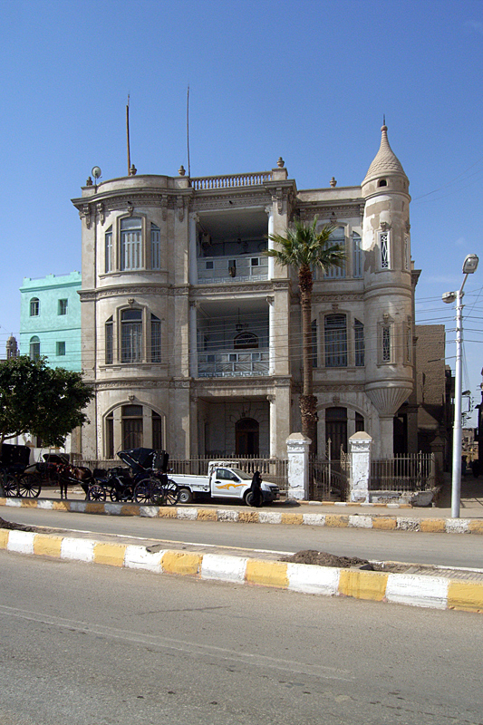 Building at the Corniche, Esna, Egypt